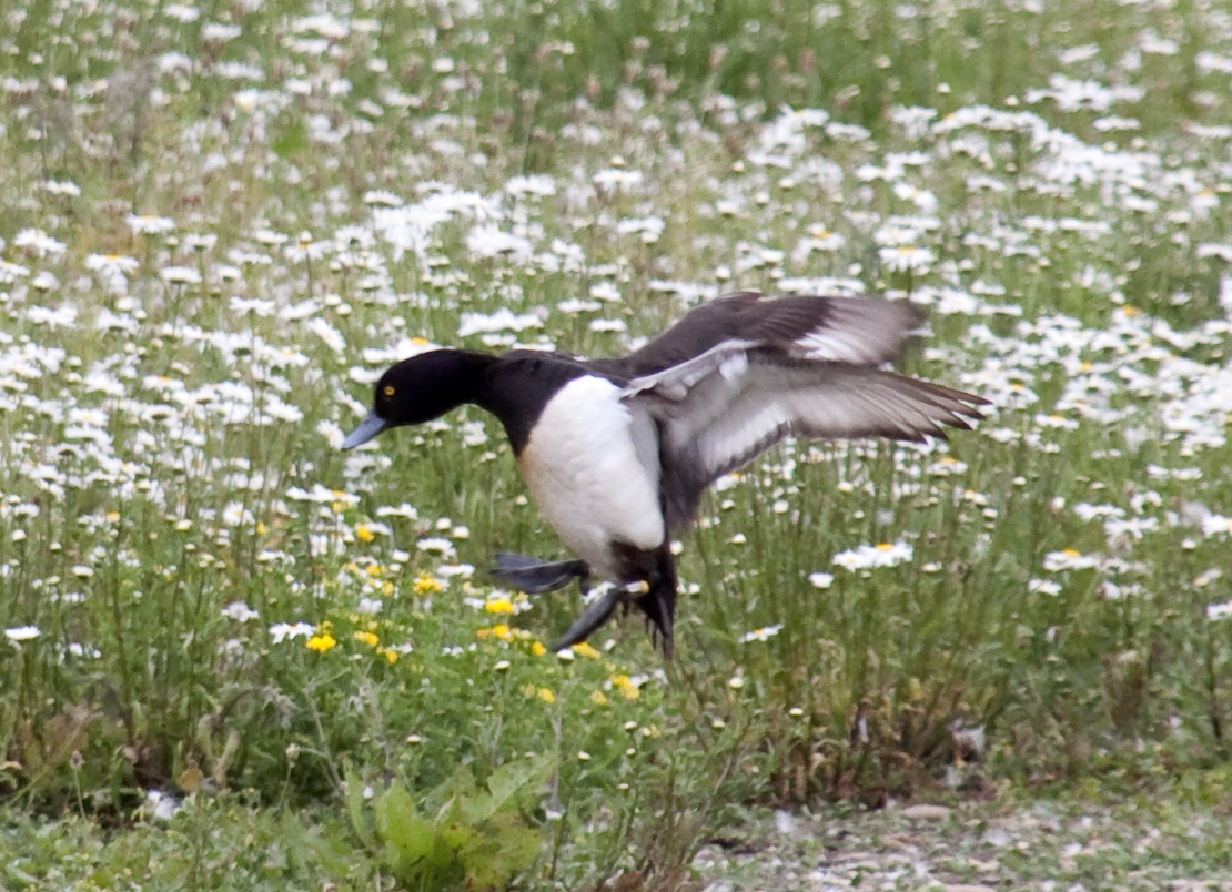 Landing tufted duck